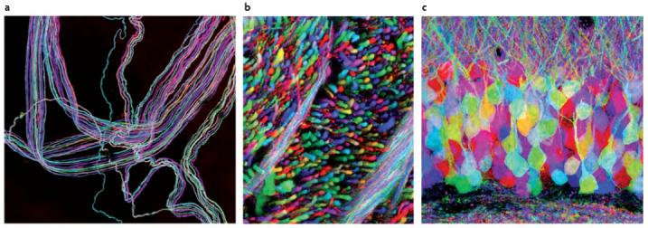 a) A motor nerve innervating ear muscle. b) An axon tract in the brainstem. c) The hippocampal dentate gyrus. In the Brainbow mice from which these images were taken, up to ~160 colours were observed as a result of the co-integration of several tandem copies of the transgene into the mouse genome and the independent recombination of each by Cre recombinase. The images were obtained by the superposition of separate red, green and blue channels. From Lichtman and Sanes, 2008